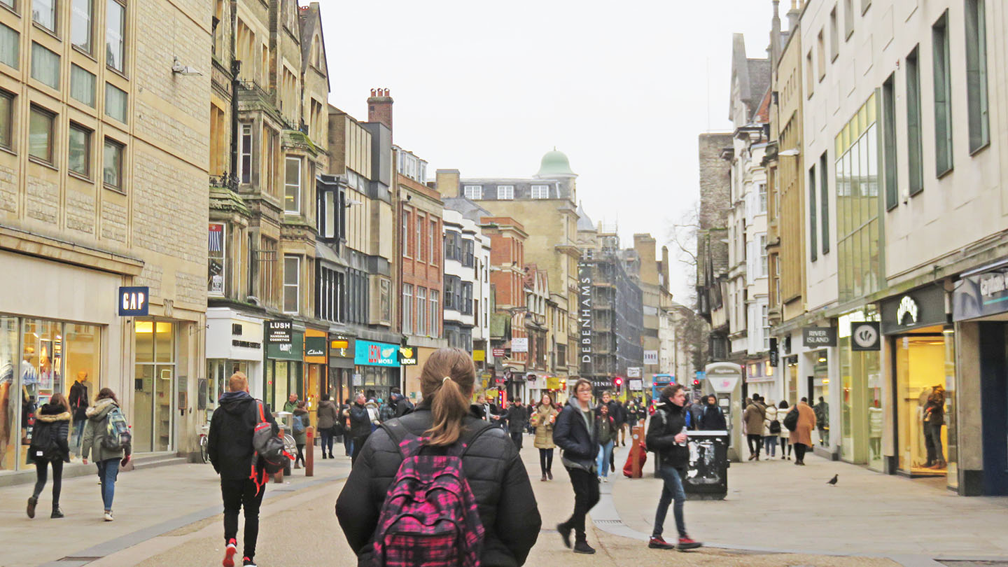 Cornmatket Street